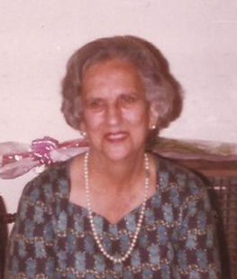 This is a picture of my most preciate great grand mother